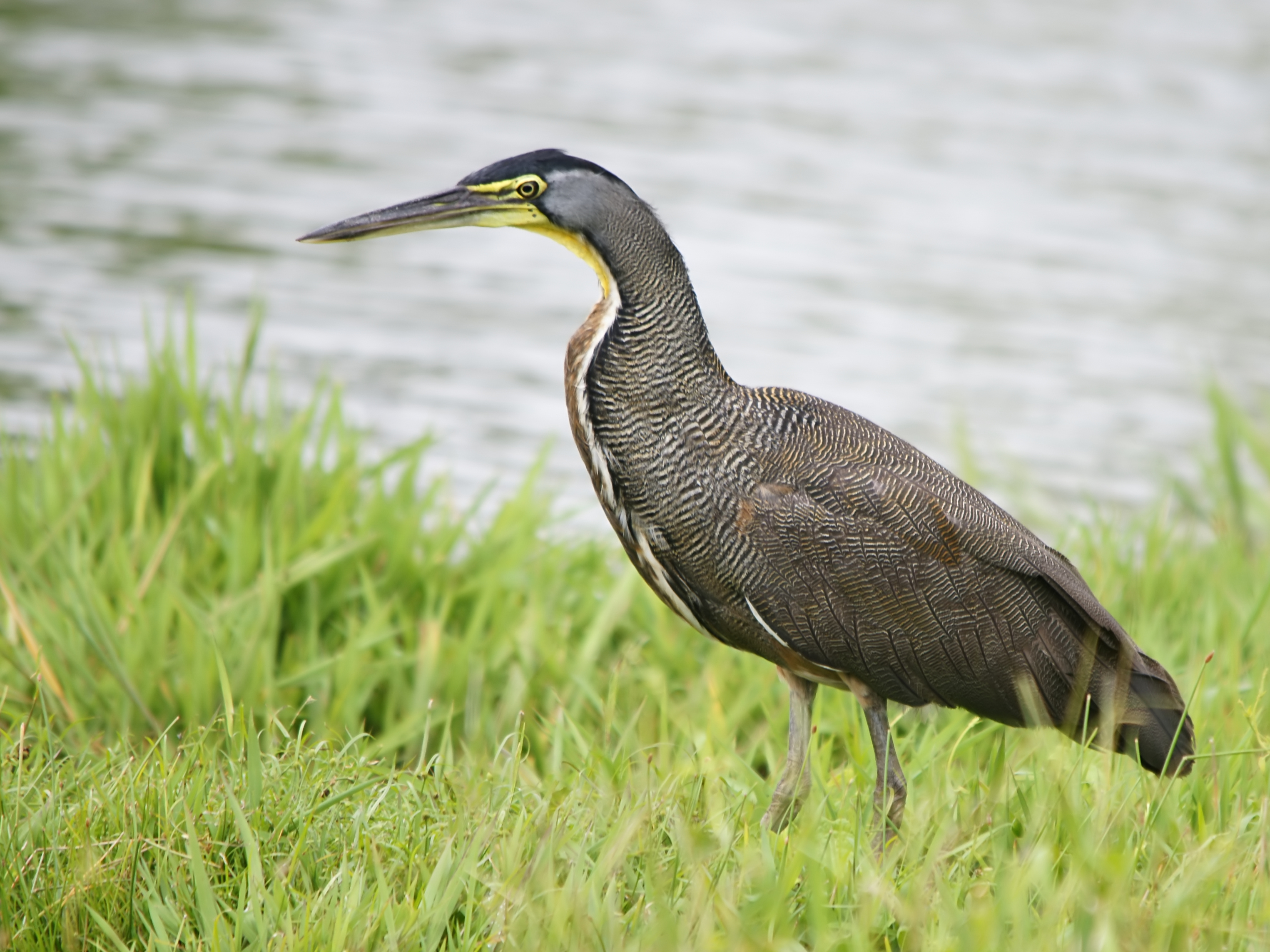 Bare-throated Tiger Heron at Rincon de la Vieja, Costa Rica